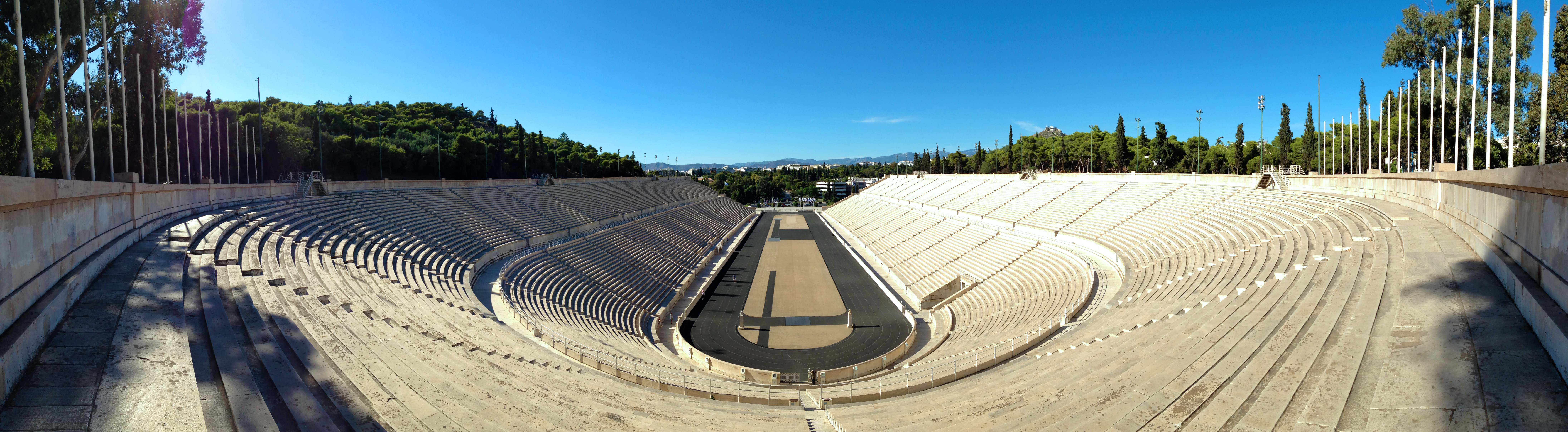 Panathenaic stadium of Athens. Panorama. - Pangrati, Athens, Greece